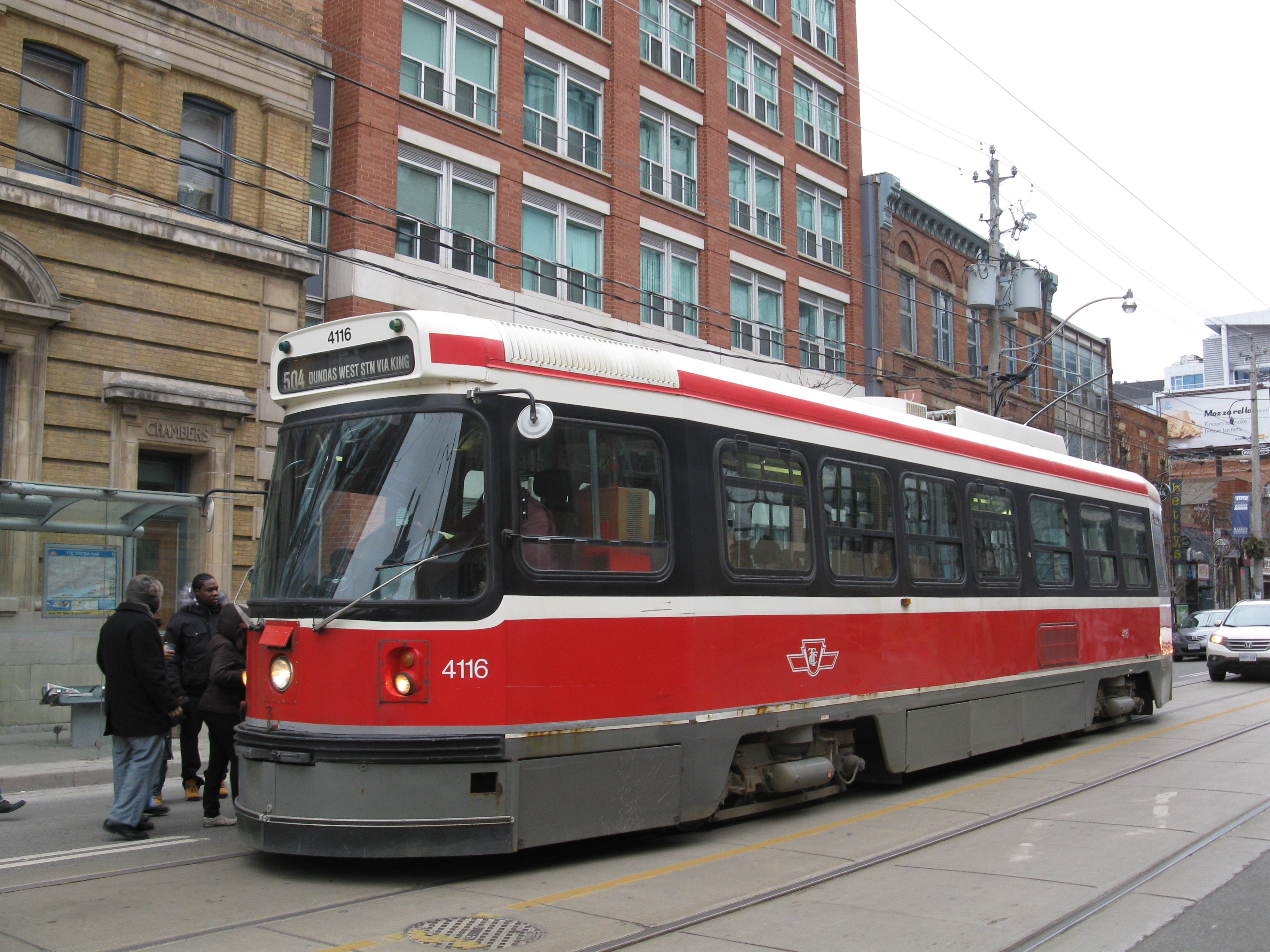 NE corner of King and Sherbourne